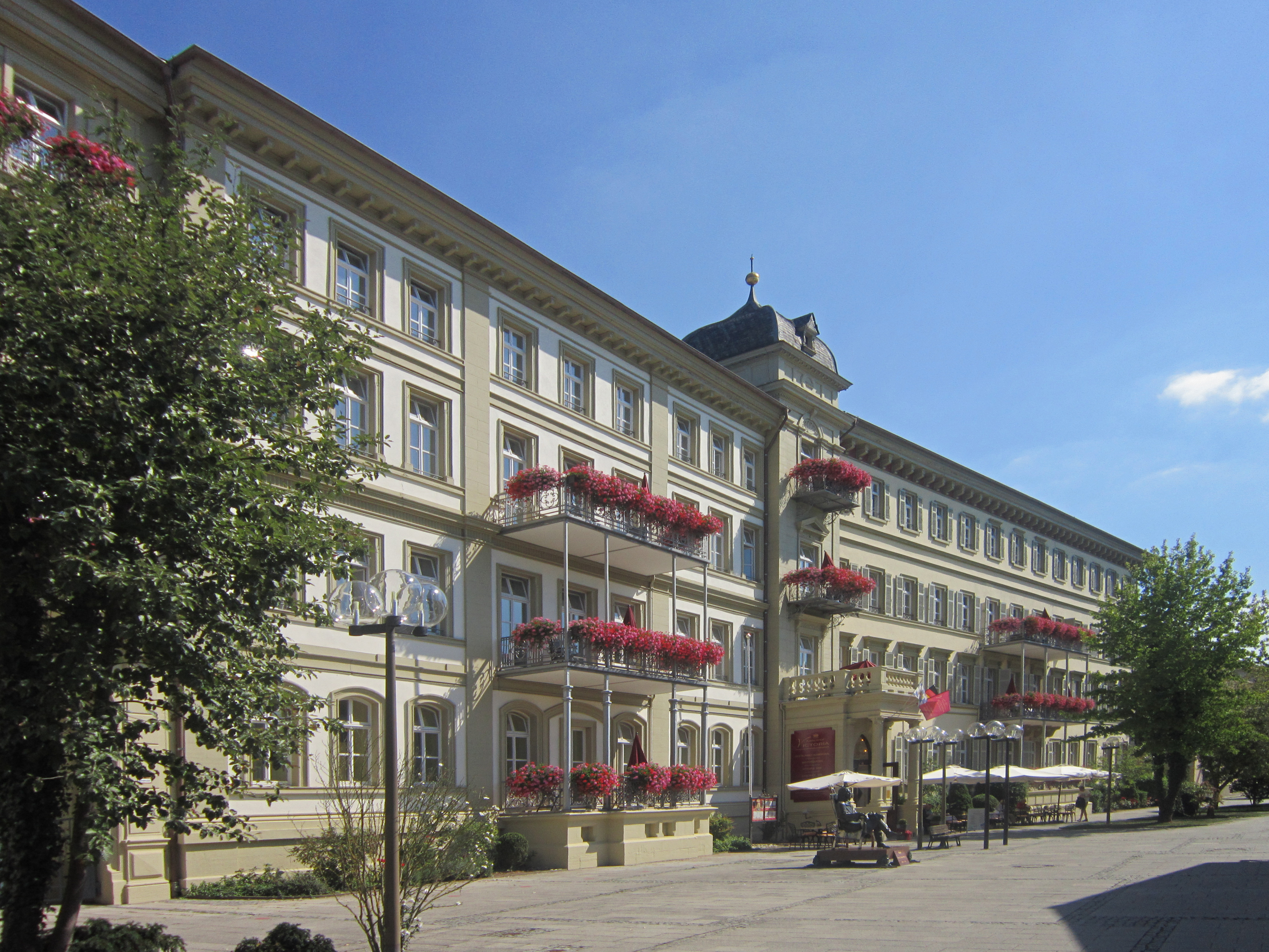 The „Kaiserhof Victoria“, a hotel in Bad Kissingen, a quarter of the German spa town of Bad Kissingen in Lower Franconia.